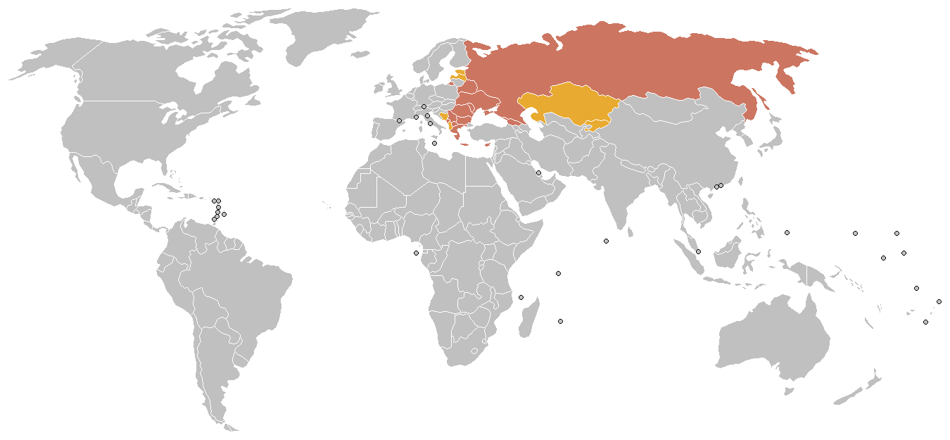 Eastern Orthodoxy around the world. Countries where Eastern Orthodoxy is the dominant religion in red, countries where more than 10% of the population are Eastern Orthodox in orange. From Image:BlankMap-World-v2.png.